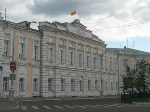 Tver Duma and Administration if the Central district